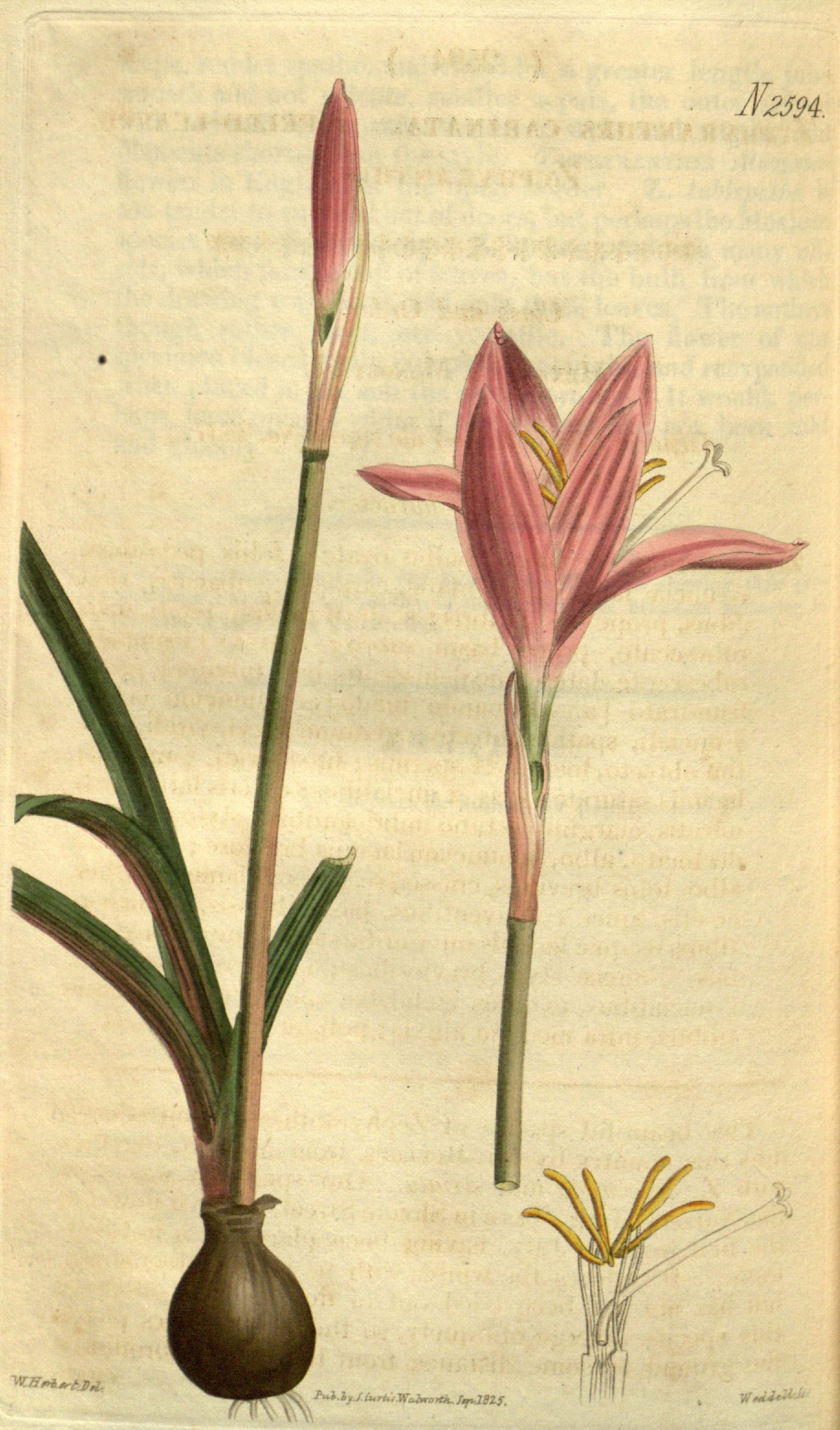 Zephyranthes carinata